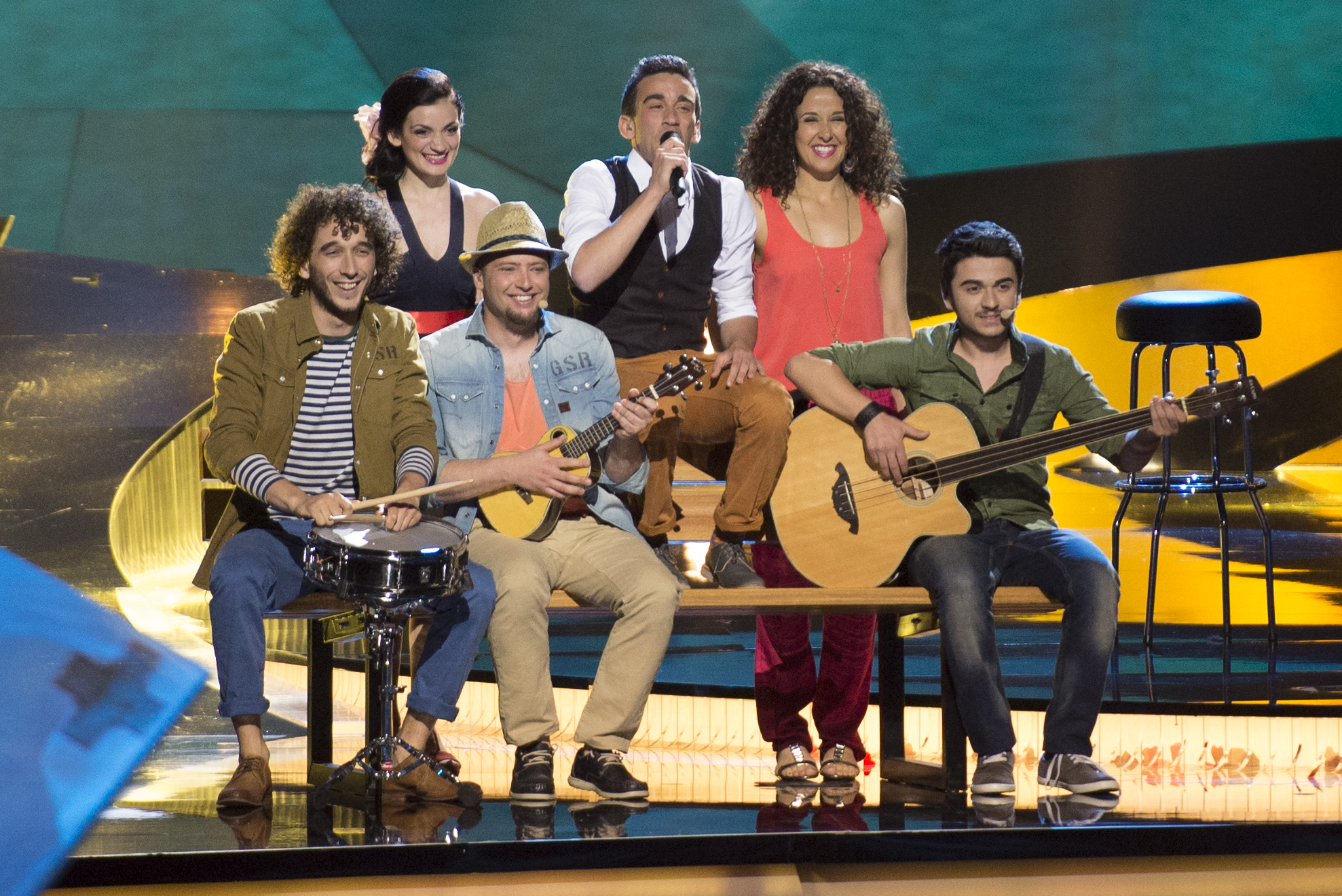 Gianluca representing Malta with the song "Tomorrow" during the second dress rehearsal of the second semi final of the Eurovision Song Contest 2013 in Malmö. (Help translate this text)